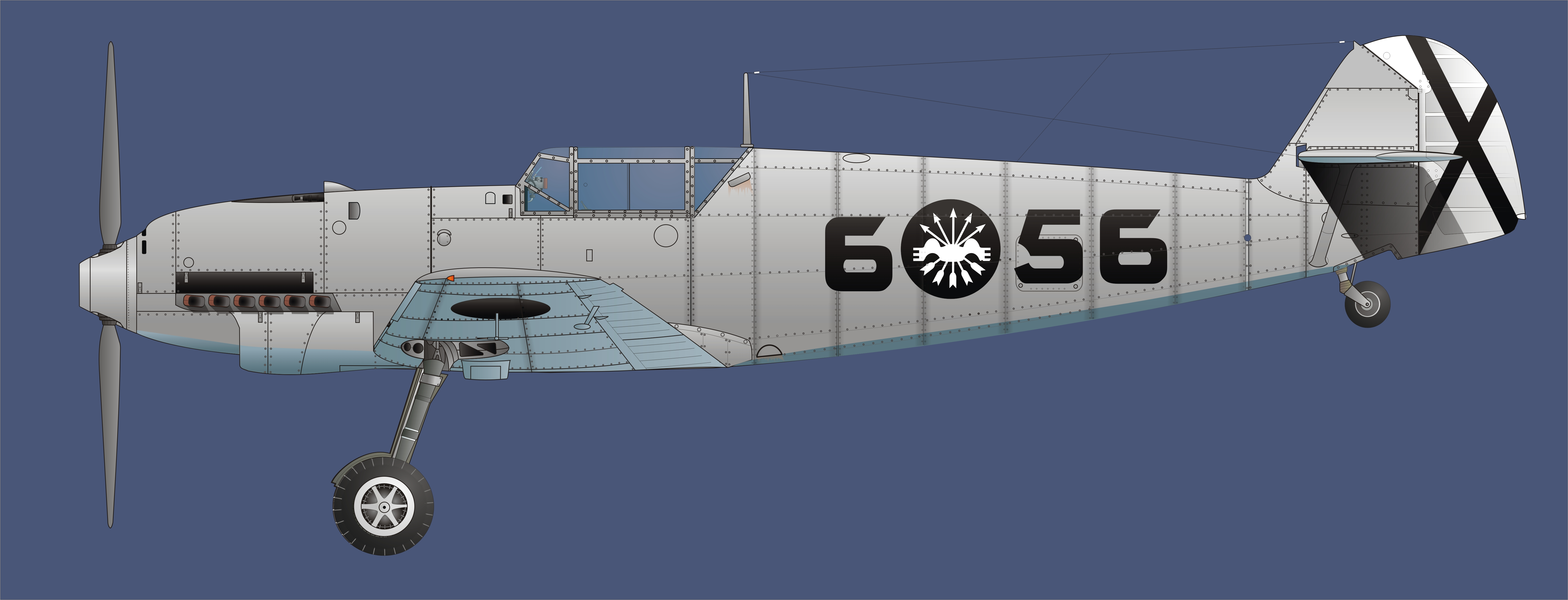 Bf 109 C-1, Jagdgruppe 88, Legion Condor, 1938